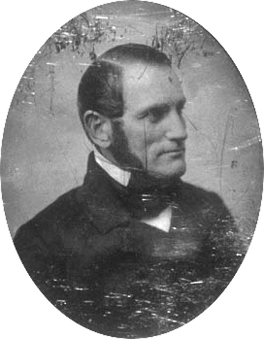 Daguerreotype of American historian Francis Parkman, circa 1852. From the National Portrait Gallery, Smithsonian Institute. Original 4.25" x 3.25". This is a retouched picture, which means that it has been digitally altered from its original version. Modifications: removed frame, converted to grayscale, and heavily adjusted brightness/contrast to better see subject. The original can be viewed here: Parkman daguerreotype.jpg. Modifications made by Midnightdreary.